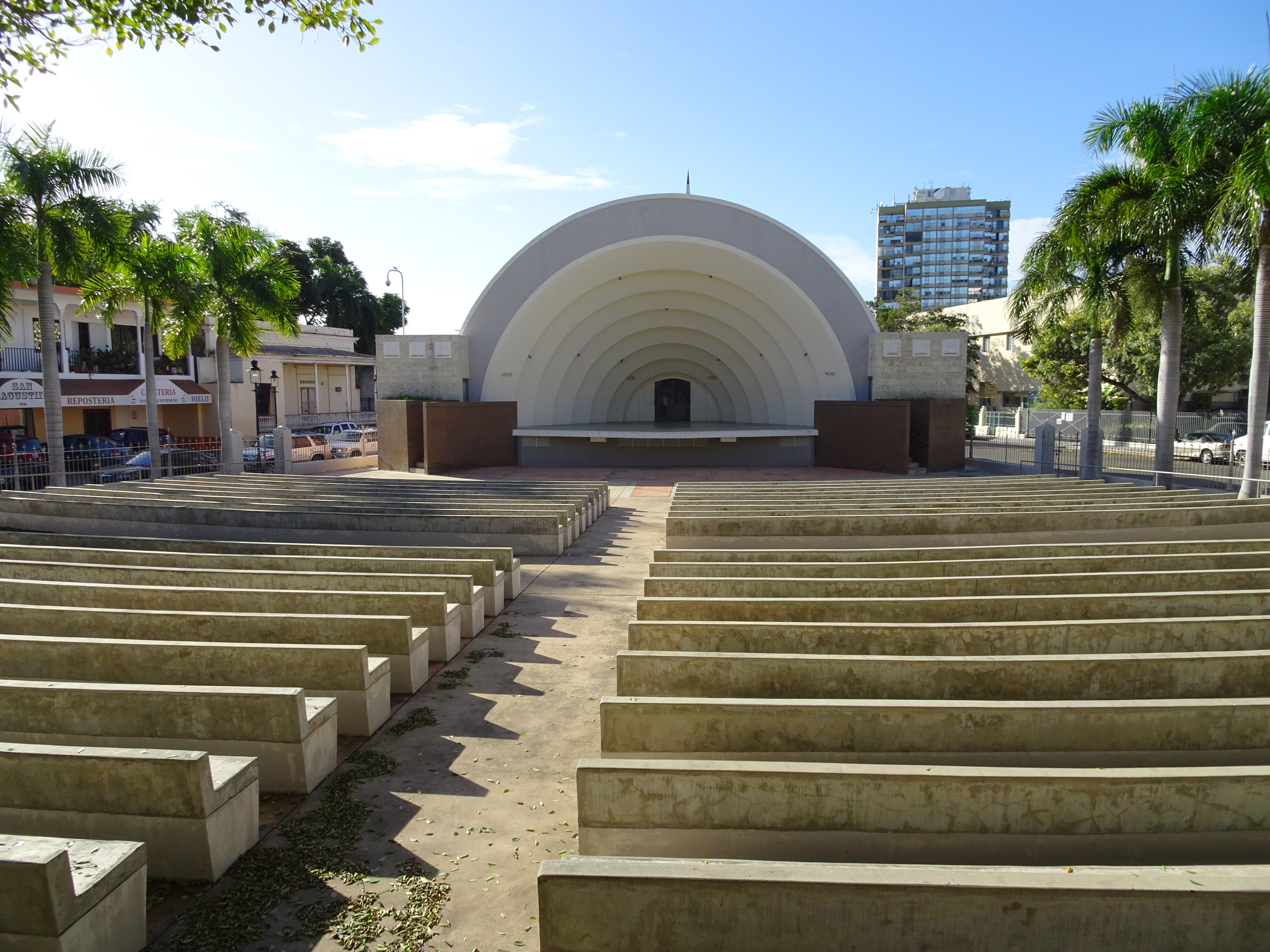 Concha Acustica de Ponce, Puerto Rico (DSC00373)